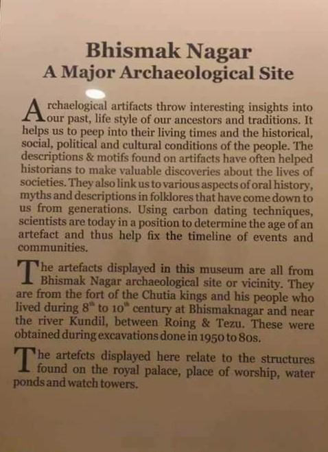 A note in the Bhismaknagar Museum stating the history of the place.